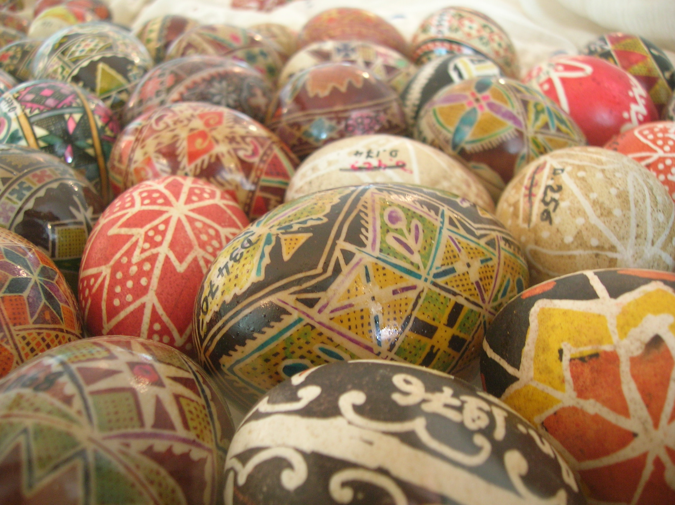 Bukovina eggs (Museum of the Romanian Peasant, Bucharest